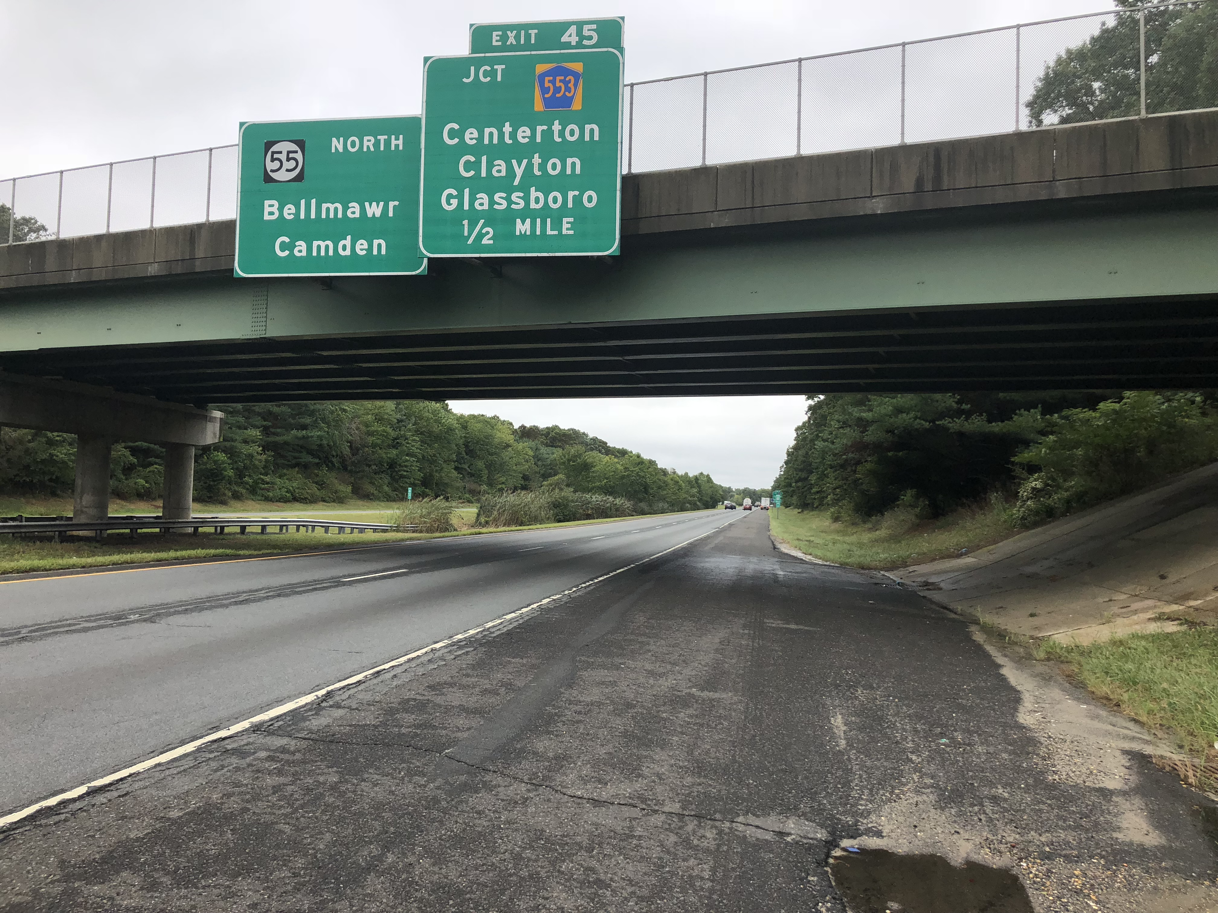 View north along New Jersey State Route 55 (Cape May Expressway) just south of Exit 45 (Gloucester County Route 553, Centerton, Clayton, Glassboro) in Elk Township, Gloucester County, New Jersey